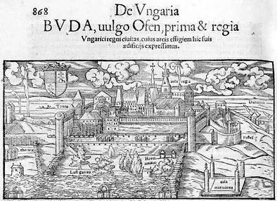 Buda in 1542